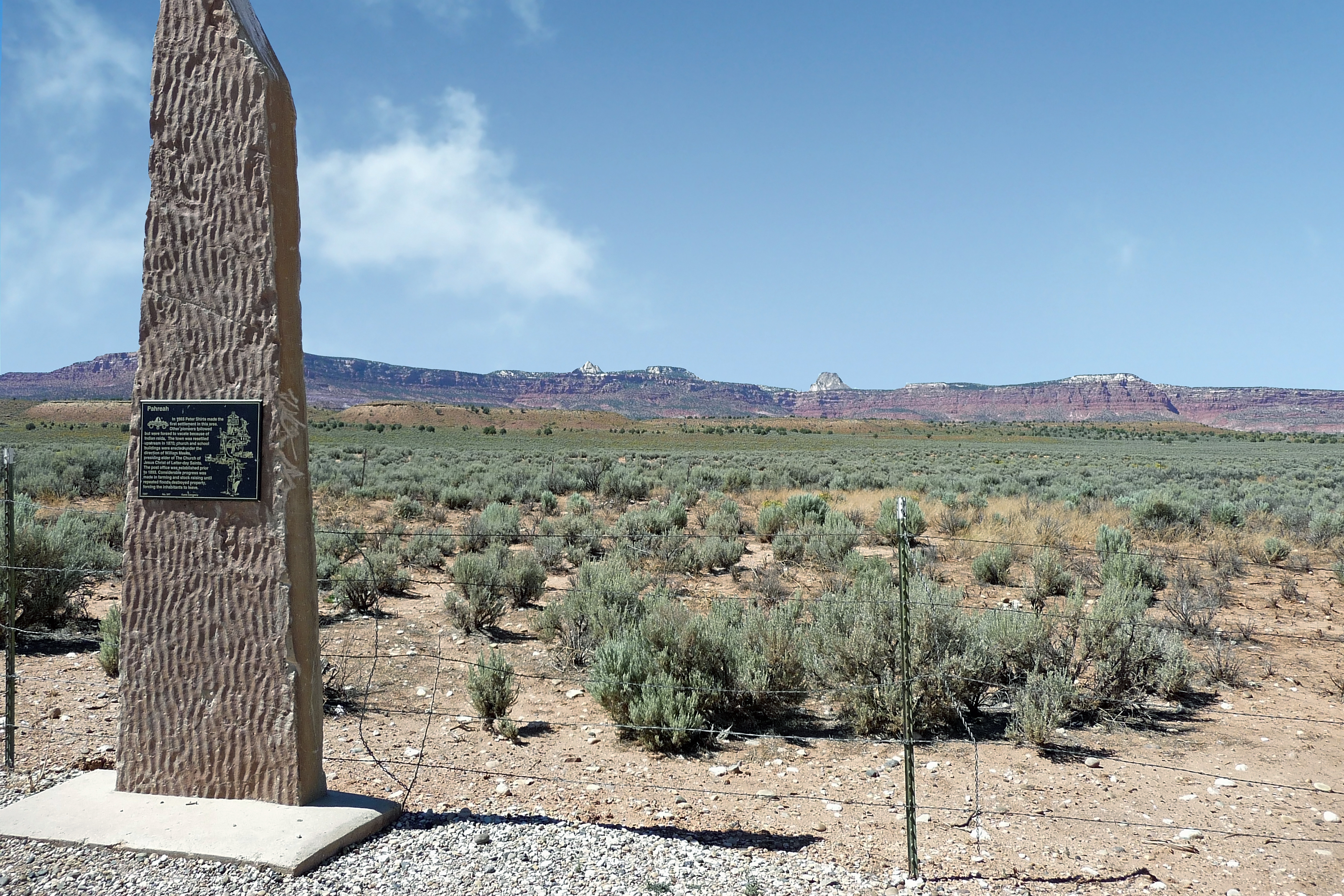 Halfway between Kanab, UT and Lake Powell on Hwy 89. Used as movie set later years. Clint Eastwood movie "The Outlaw and Josey Wales" filmed here.